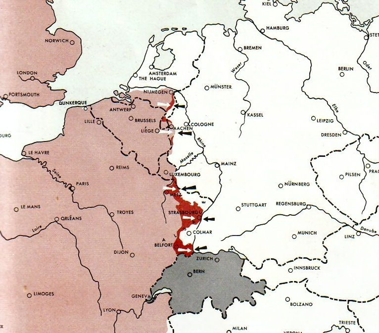 Map of the front against Germany: This map is taken from the source "Atlas of the World Battle Fronts in Semimonthly Phases to August 15th 1945: Supplement to The Biennial report of The Chief of Staff of the United States Army July 1, 1943 to June 30 1945 To the Secretary of War". (See Cover, Forward and Map details)